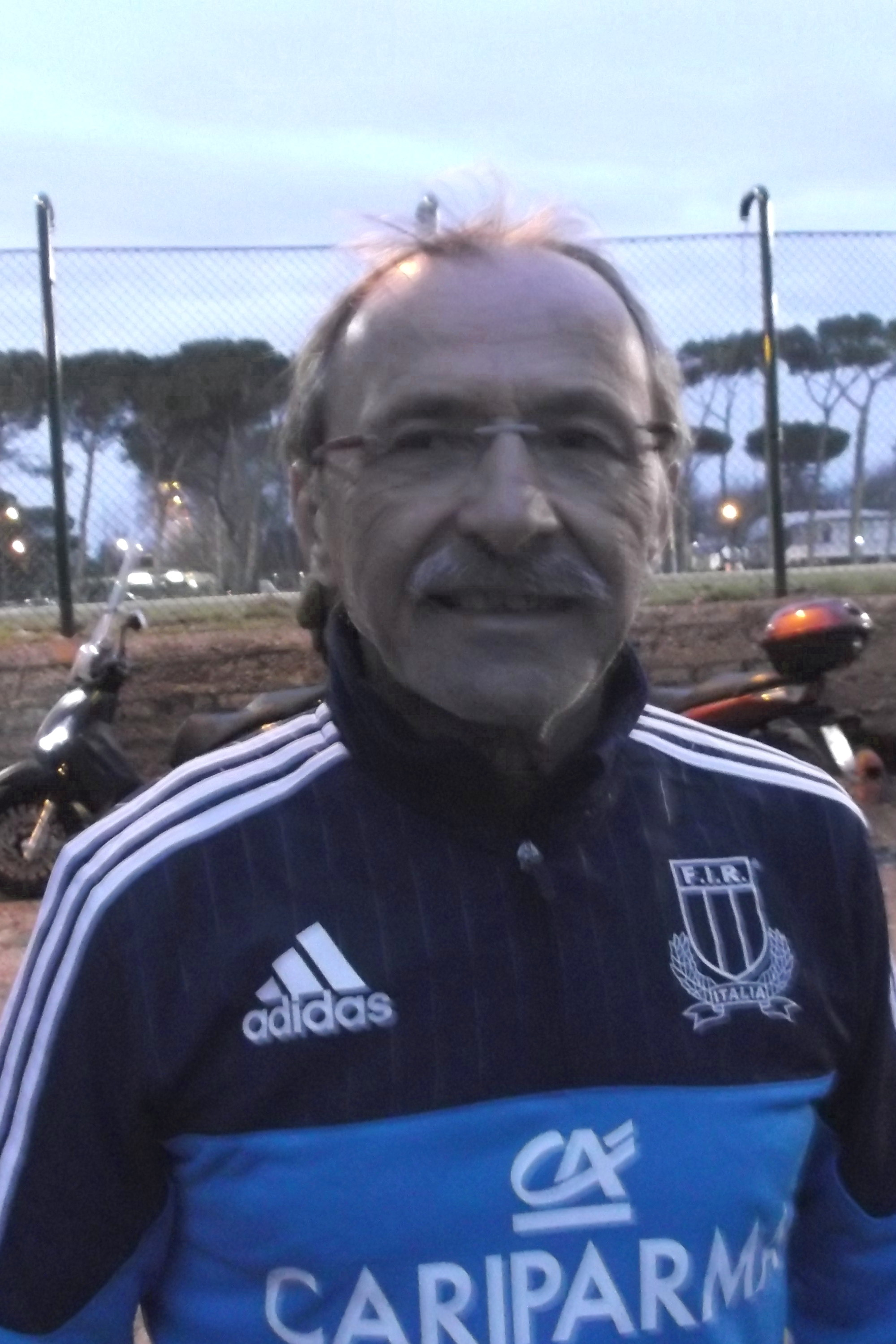 Frenchman Jacques Brunel, head coach of Italy national rugby union team during a training session in Rome